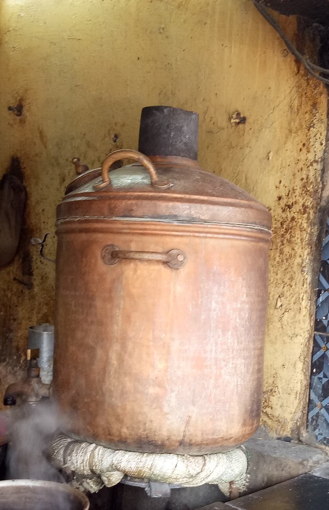 copper made domestic boiler used to heat boiler